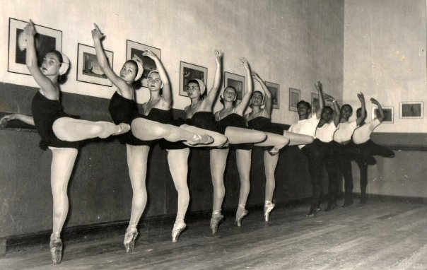 Teresa Mann at class with the Ballet Peruano